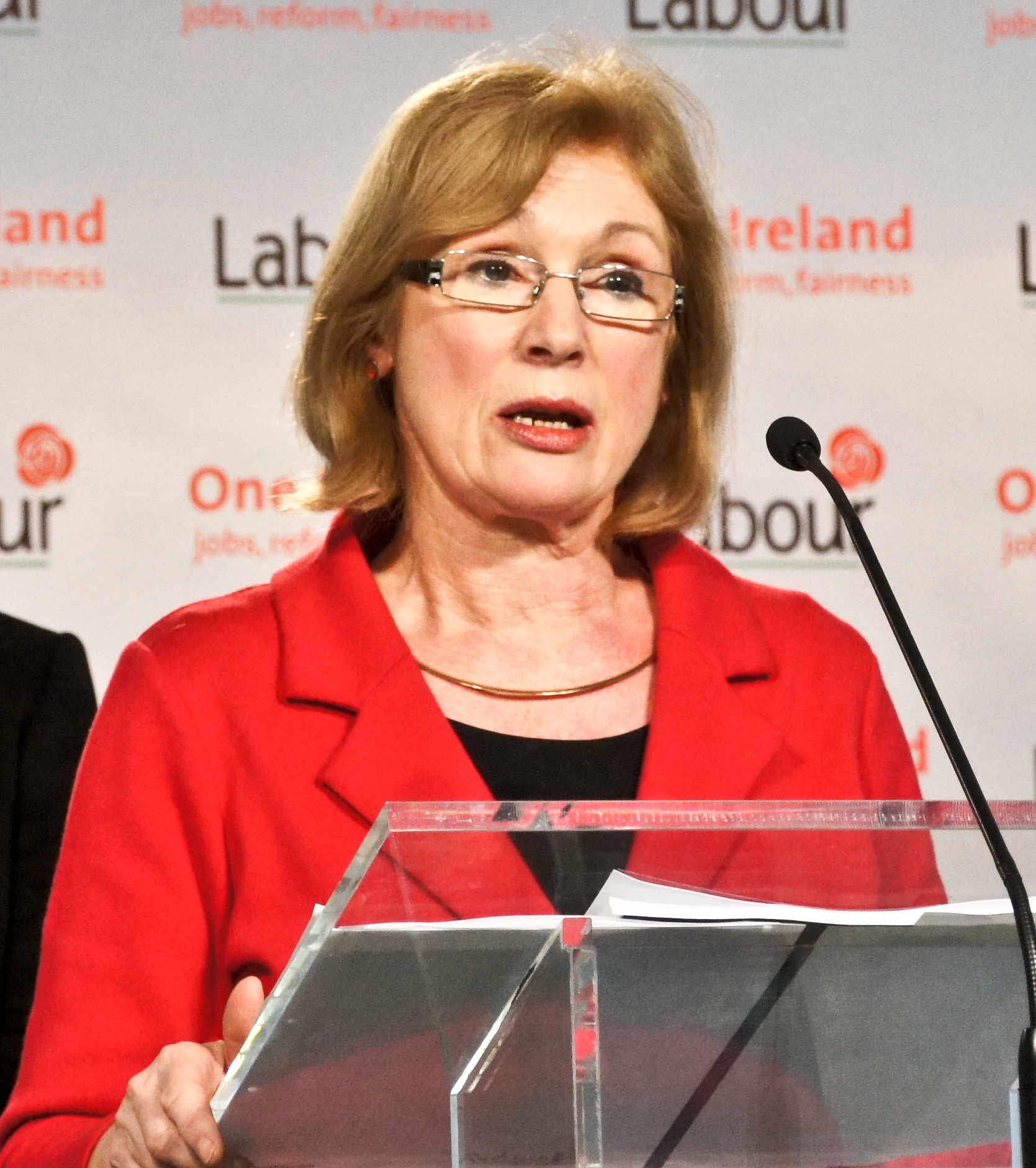 Irish Labour Party Jan O'Sullivan TD.